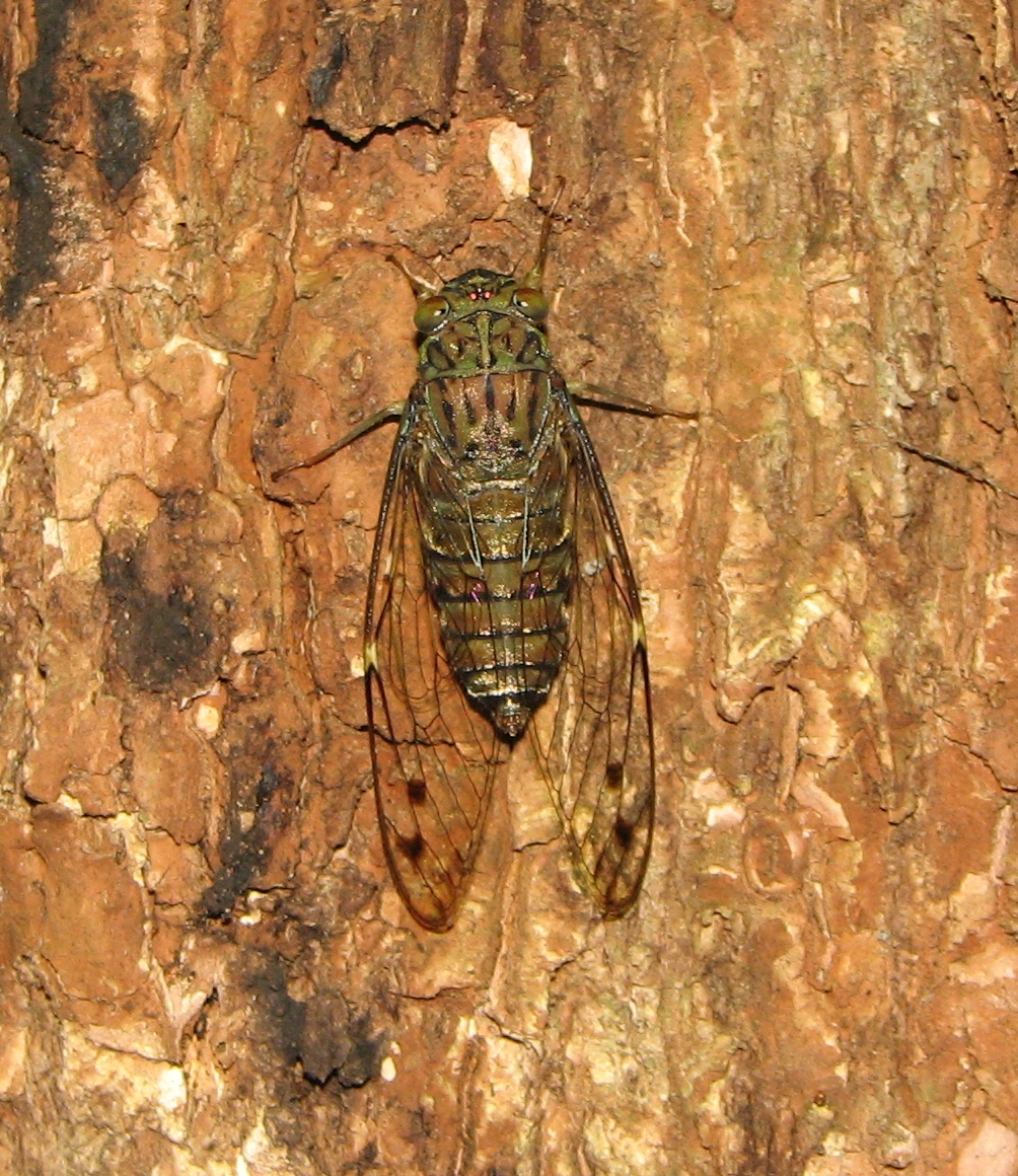 Common Indian Cicada (Purana tigrina), taken from Kerala, India.